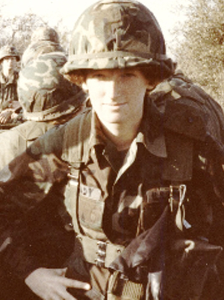 Lt. Gen. Mary A. Legere recently concluded her four-year assignment as the Army's senior intelligence officer, or G-2. She joined the Army in 1982 through the Reserve Officer Training Corps.